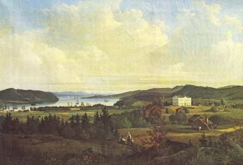 Johannisberg in Bollstabruk, Kramfors municipality.